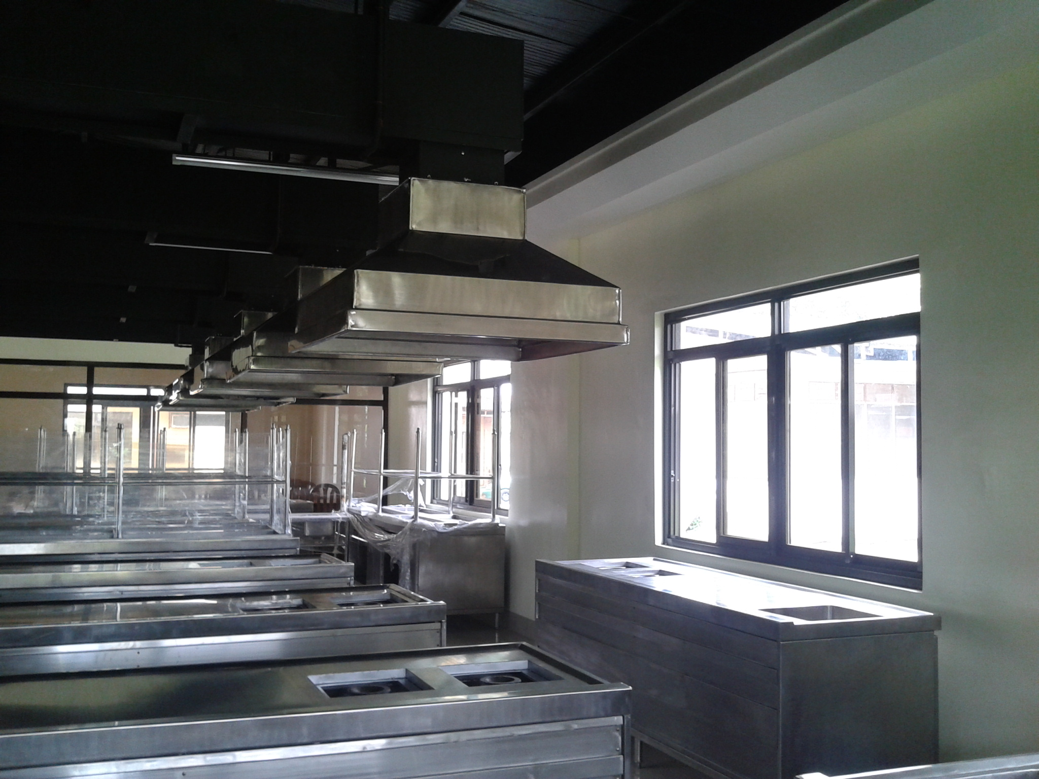 Tagum National Trade School State of the Art Building Cookery NC II